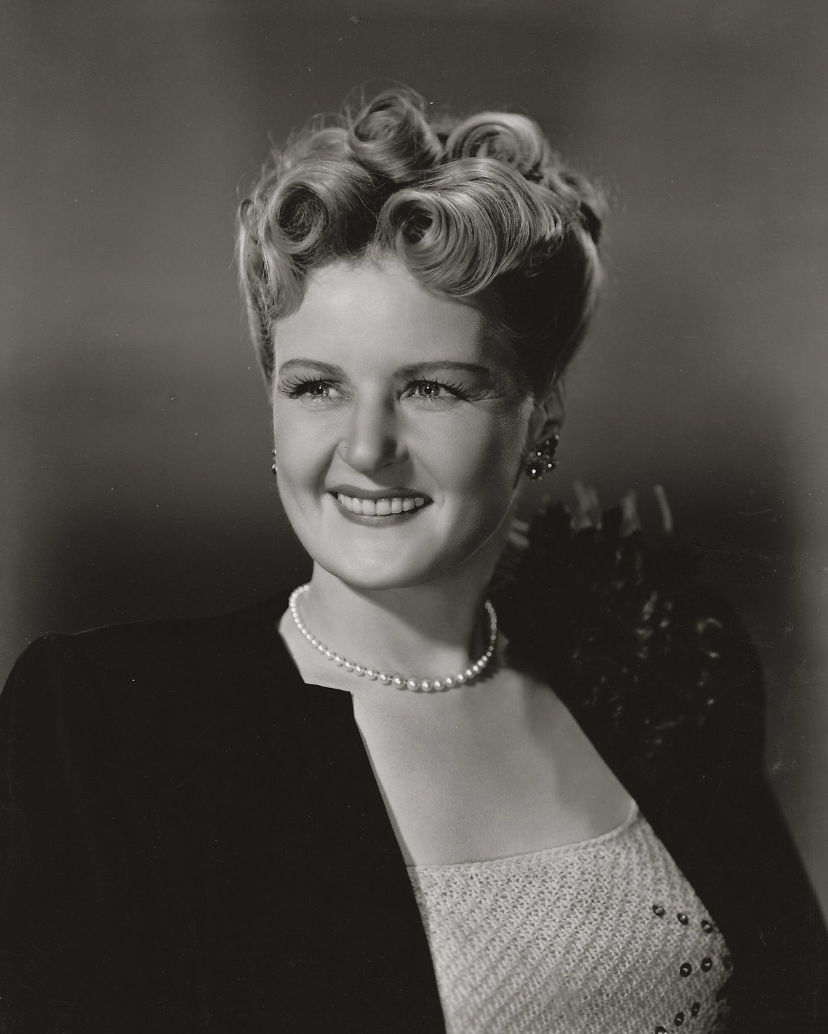 Depicted person: Moyna Macgill – Irish actress (1895-1975)